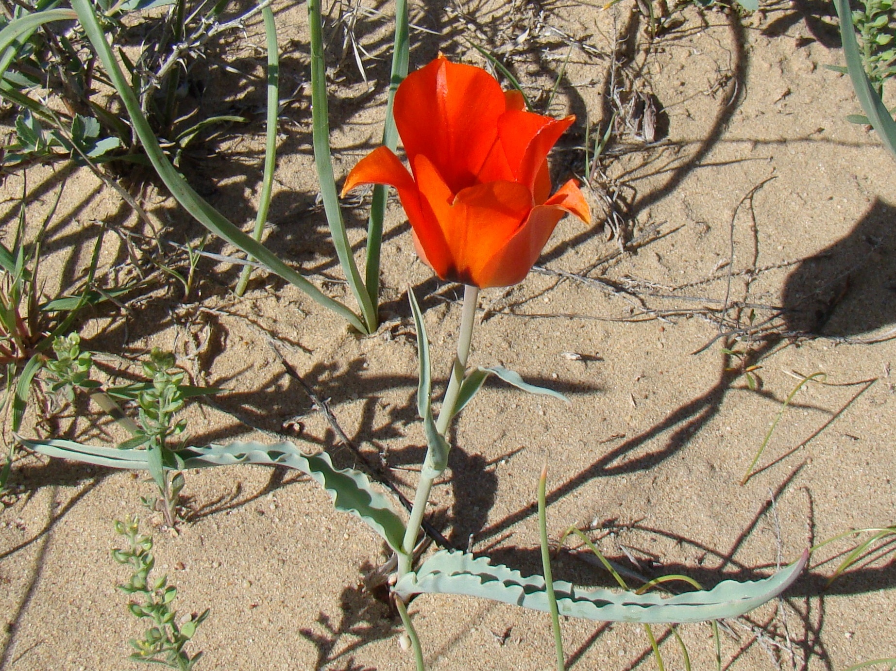 Tulipa borszczowii. Endemic plant of Aral see basin. Baikonur-town, Kazakhstan.